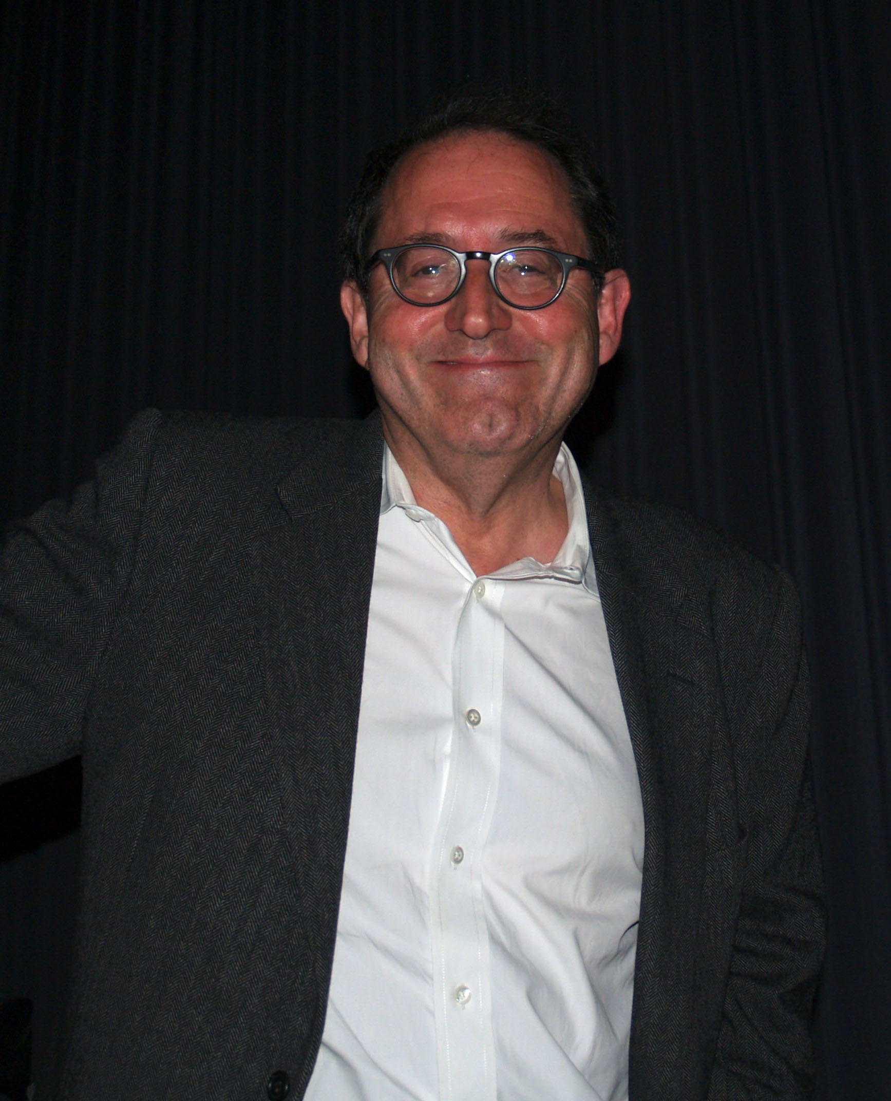 Sony Pictures Classics co-founder and co-president Michael Barker at a June 7, 2016 screening of the 1976 film The Front, which was followed by a Q&A with Barker and The Front screenwriter Walter Bernstein, at the SVA Theater in Manhattan. This photo was created by Luigi Novi. It is not in the public domain, and use of this file outside of the licensing terms is a copyright violation.